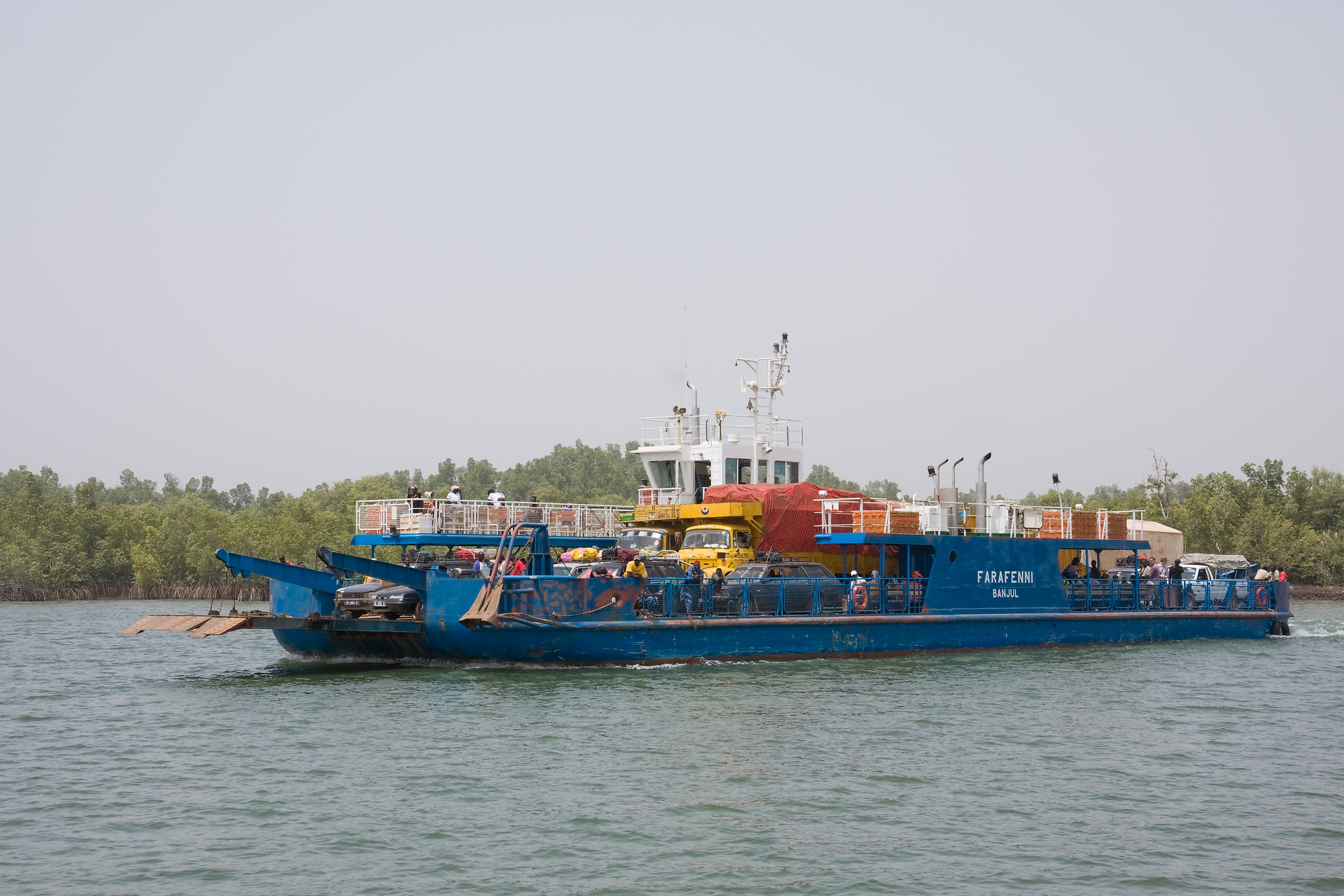 The Farafenni ferry in The Gambia